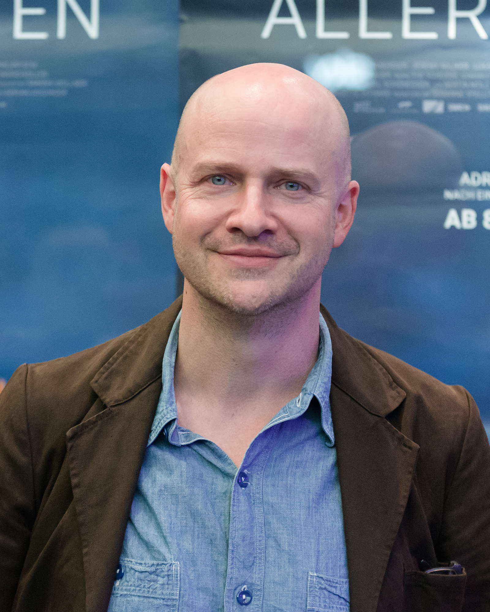 Lukas Miko; Viennese premiere of The Best Of All Worlds at Gartenbaukino, Vienna, Austria.